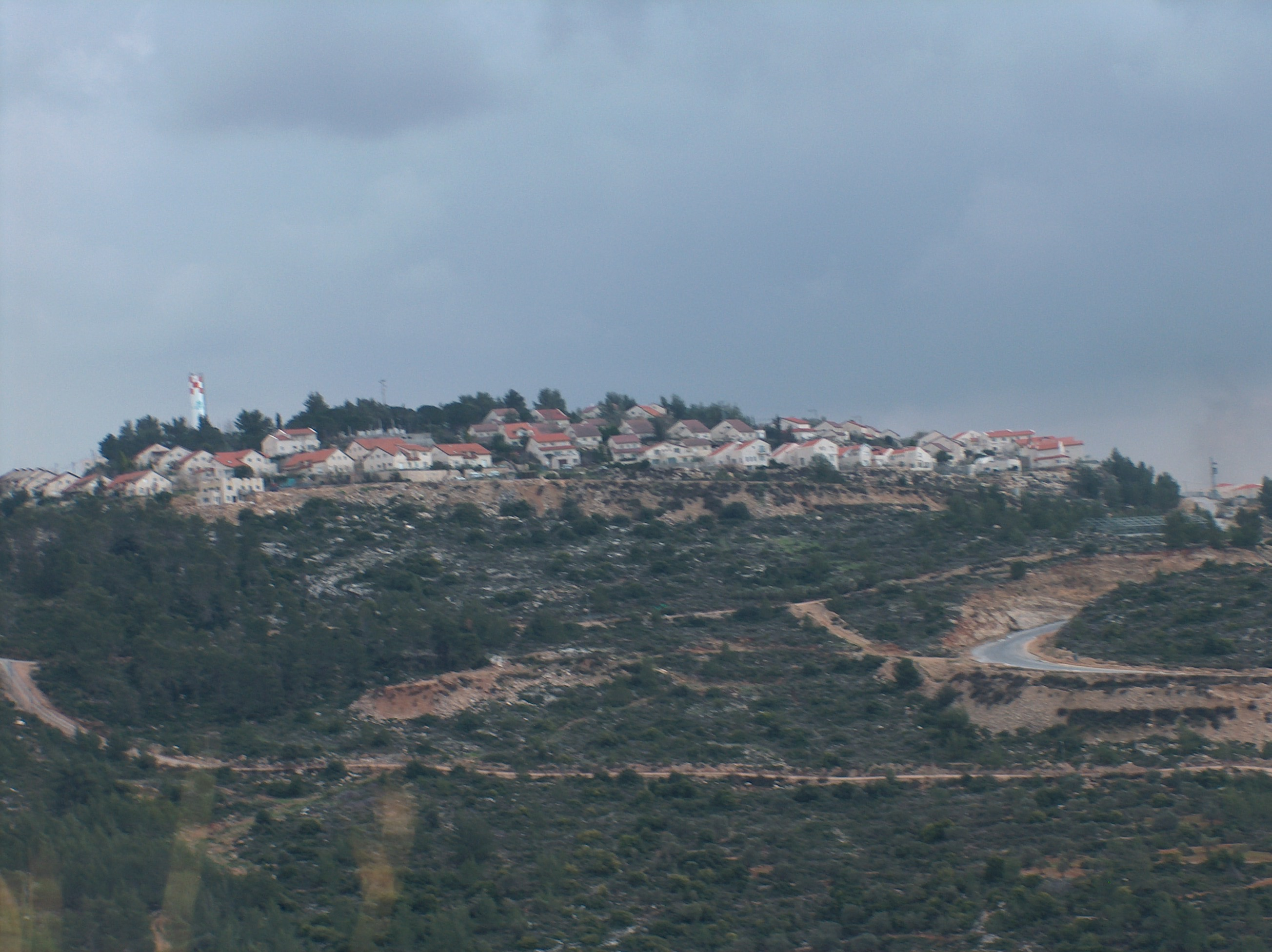 View of Dolev settlement